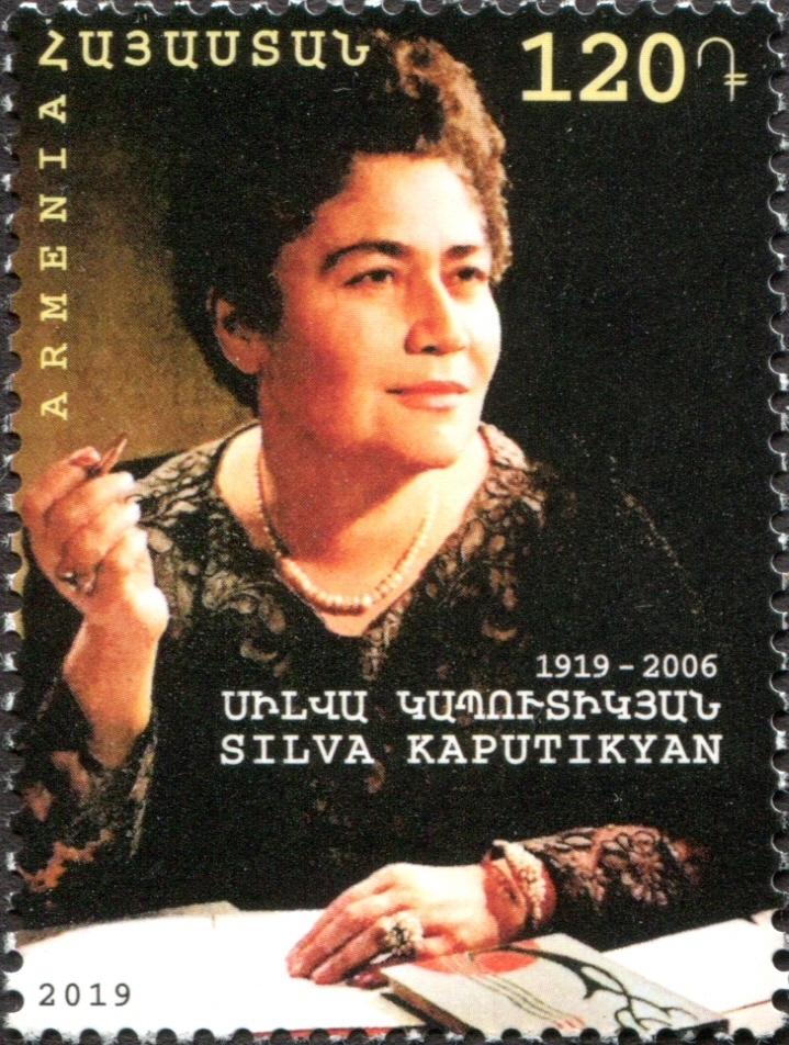 Prominent Armenians. 100th anniversary of Silva Kaputikyan